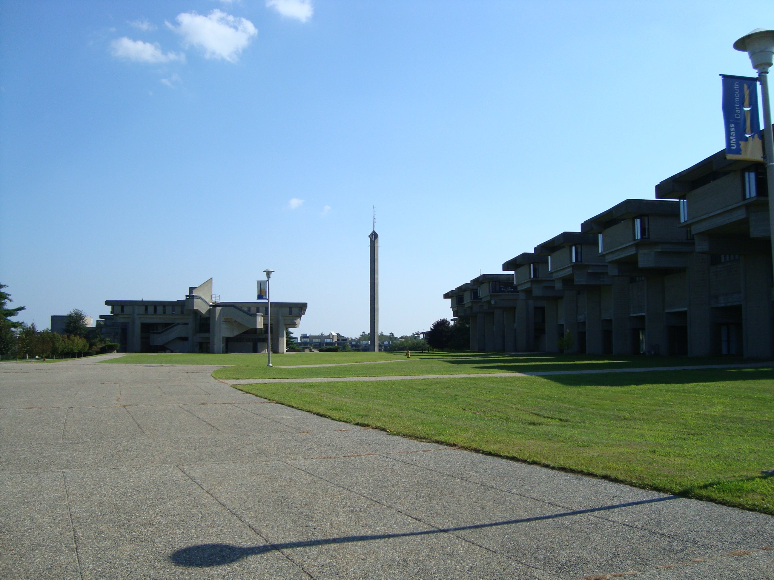 Author - Tyler Ruffin